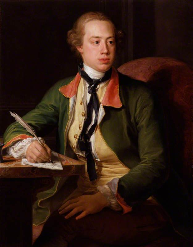 Portrait of Frederick North, 2nd Earl of Guilford (1732–1792)